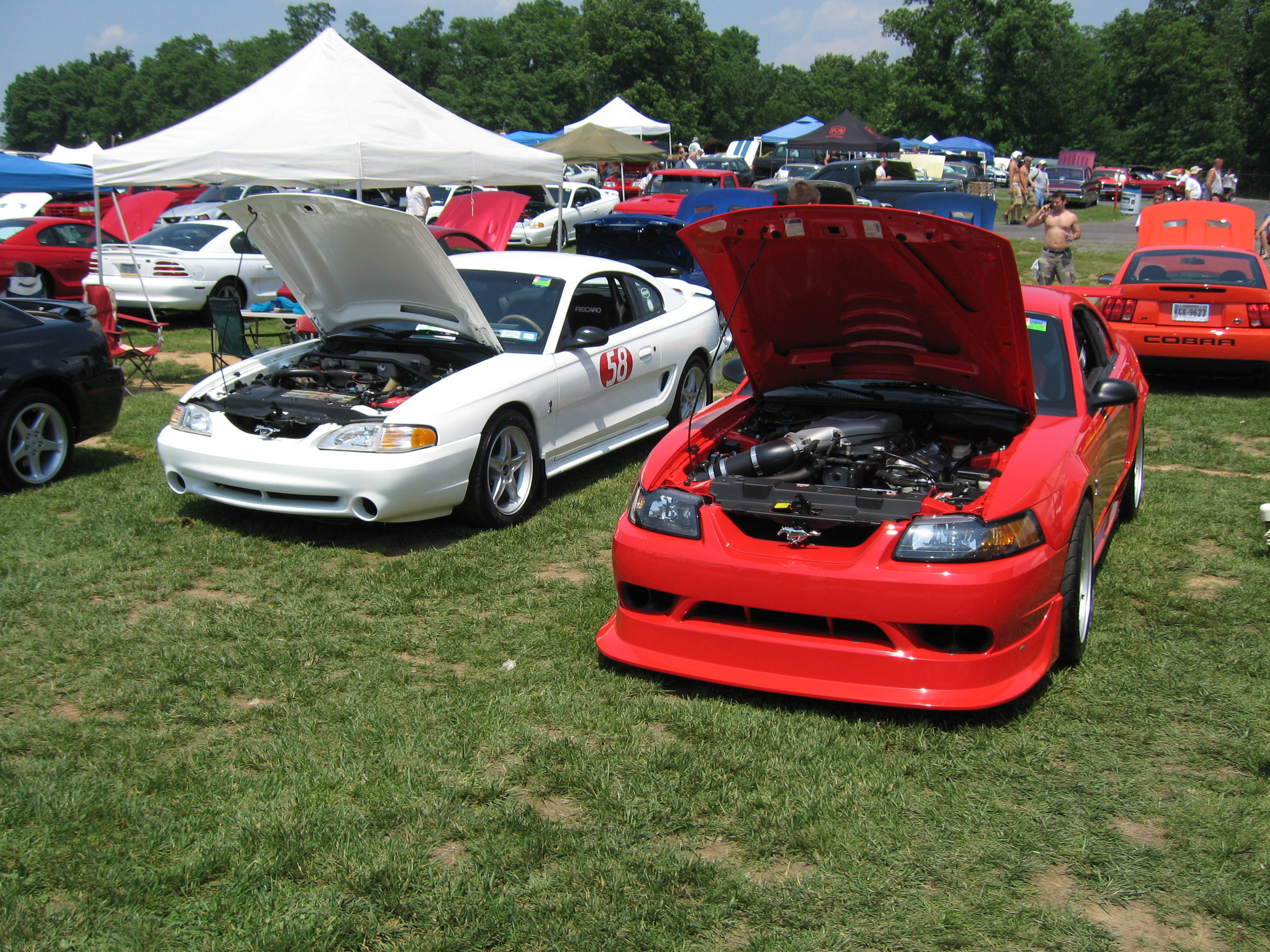 95 and 00 cobra r at ford carlisle